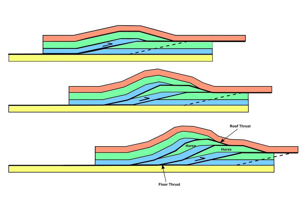 Diagram showing progressive formation of a thrust duplex